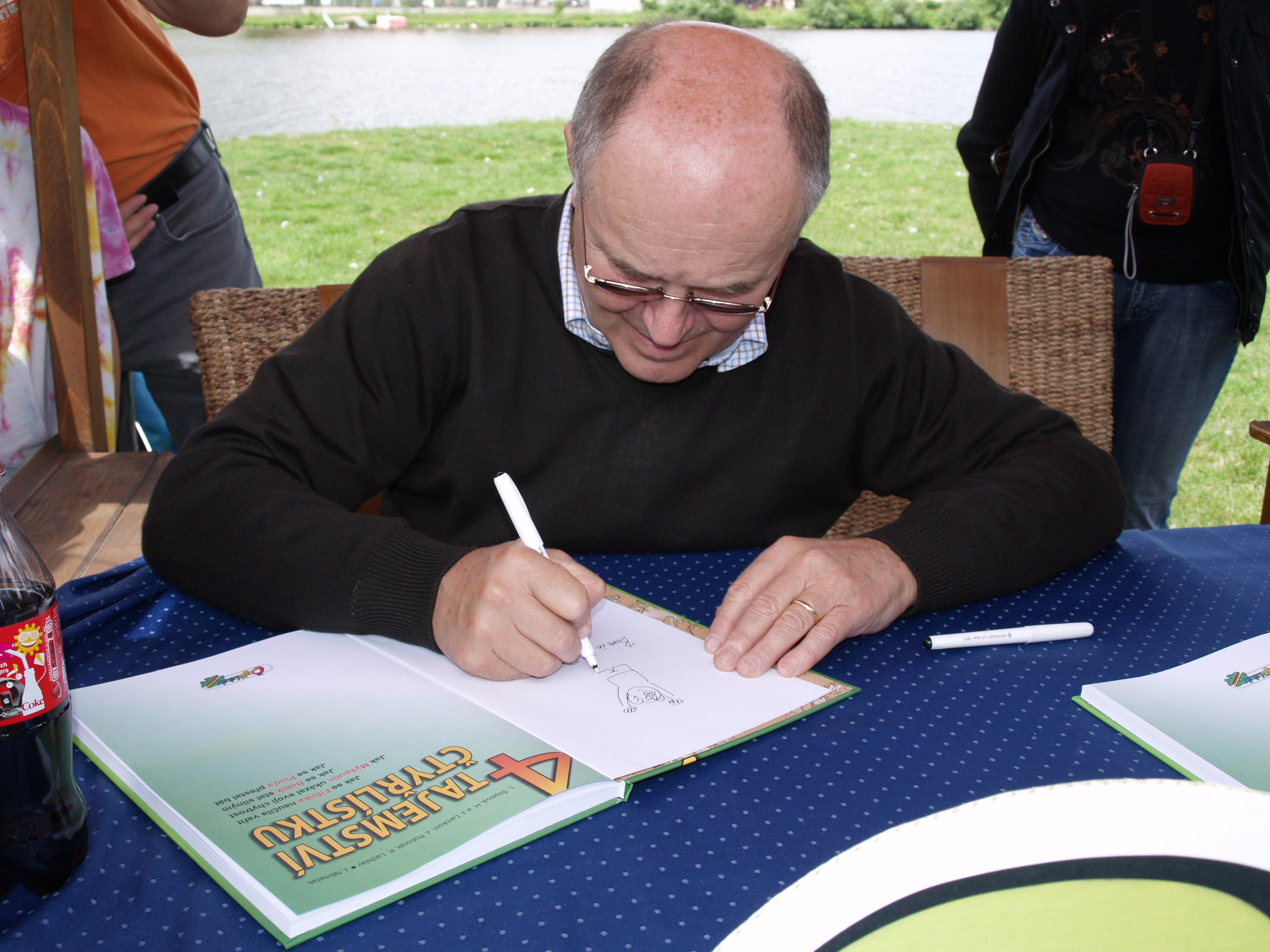 Czech illustrator Jaroslav Němeček (author of Czech comics Čtyřlístek) draws a character—pig Bobík